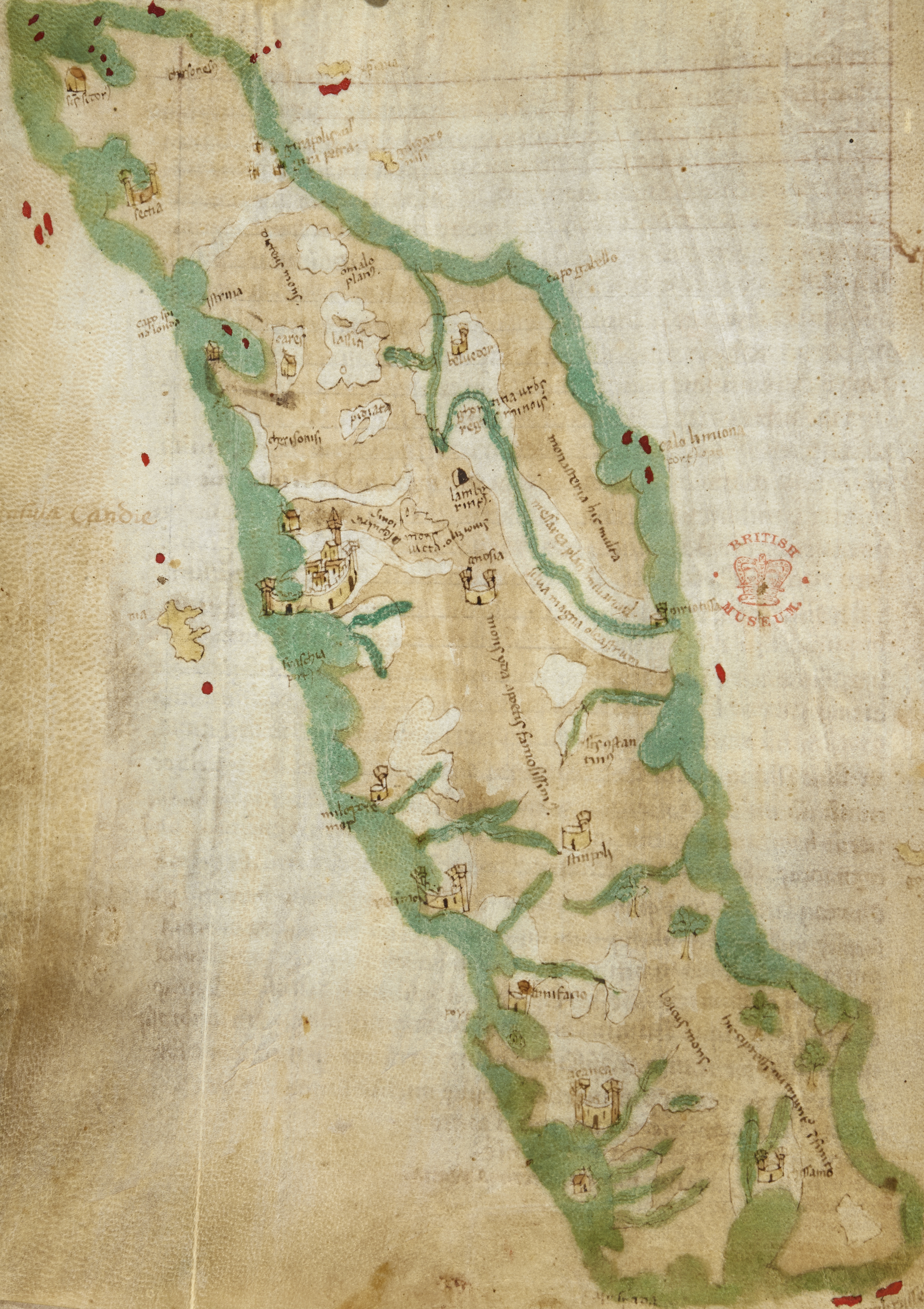 An illustrated account of the islands and major ports of the Mediterranean